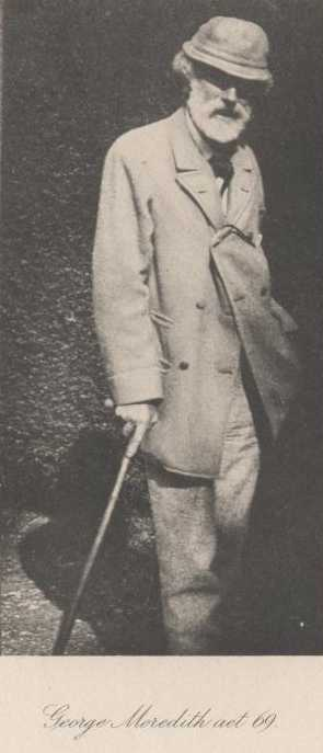 George Meredith at age 69.